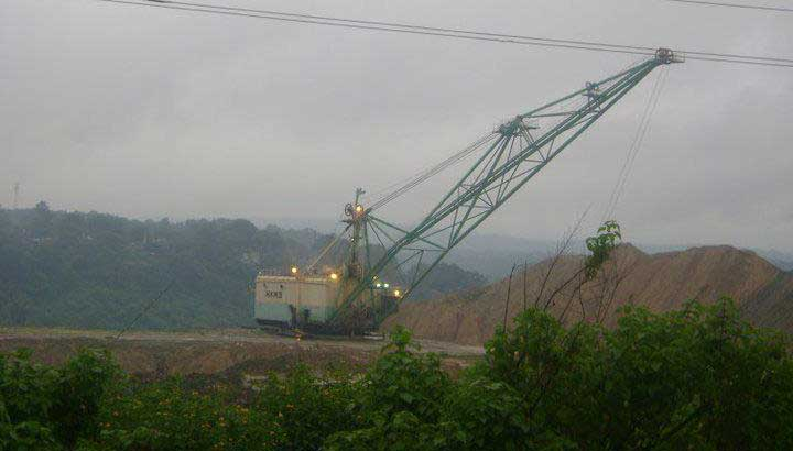 this is asia's second largest coal drag line